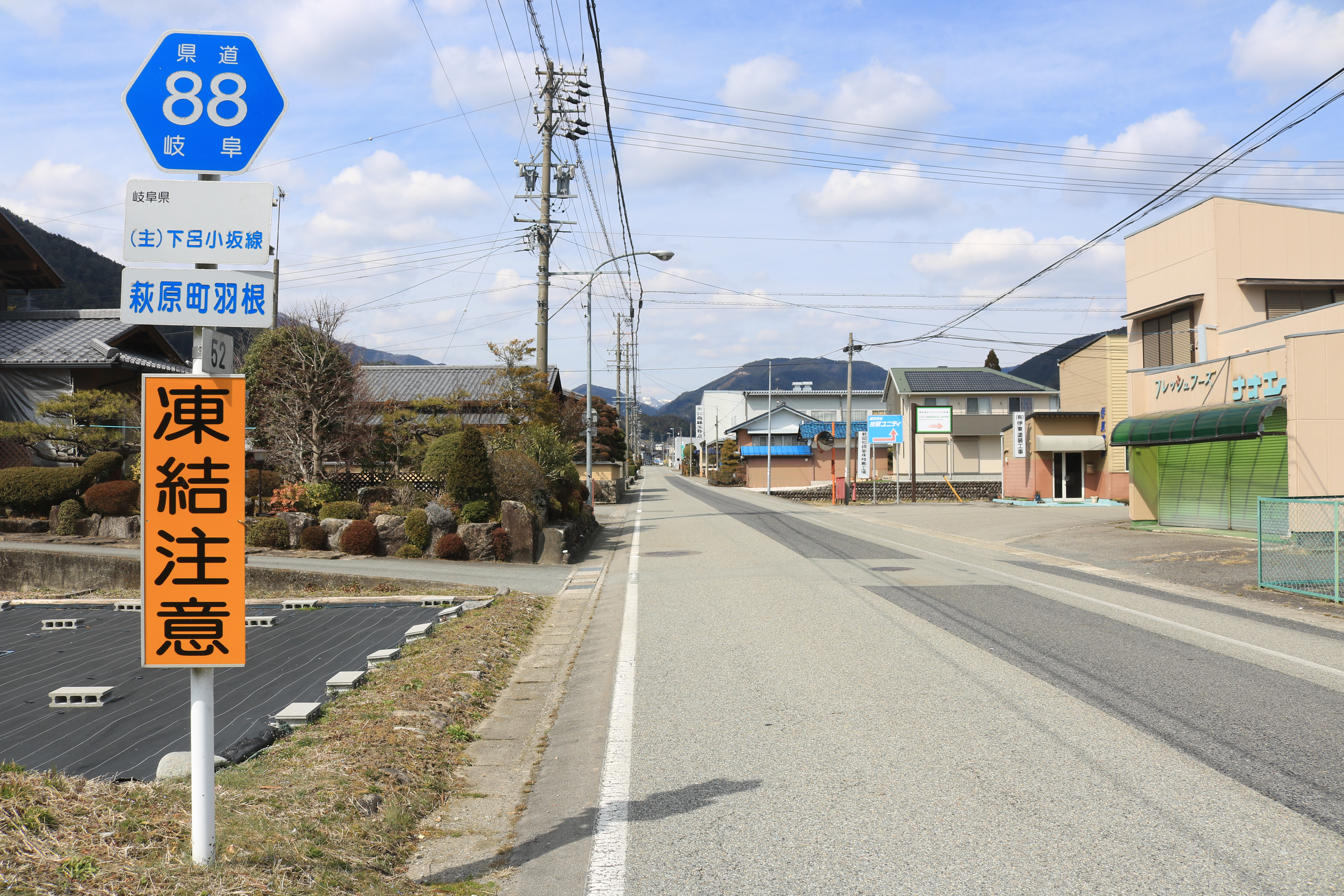 Gifu Prefectural Road Route 88 in Hane, Hagiwara-cho, Gero, Gifu prefecture, Japan.